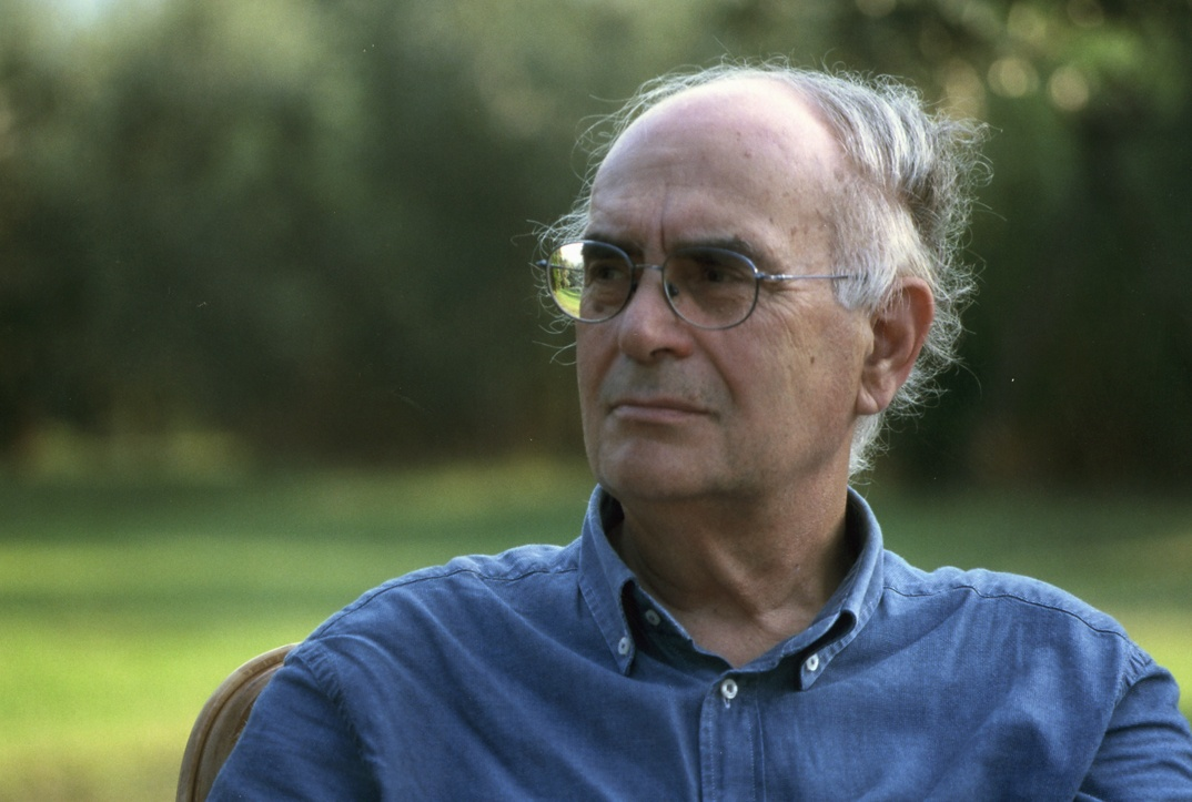 Francesco Gurrieri